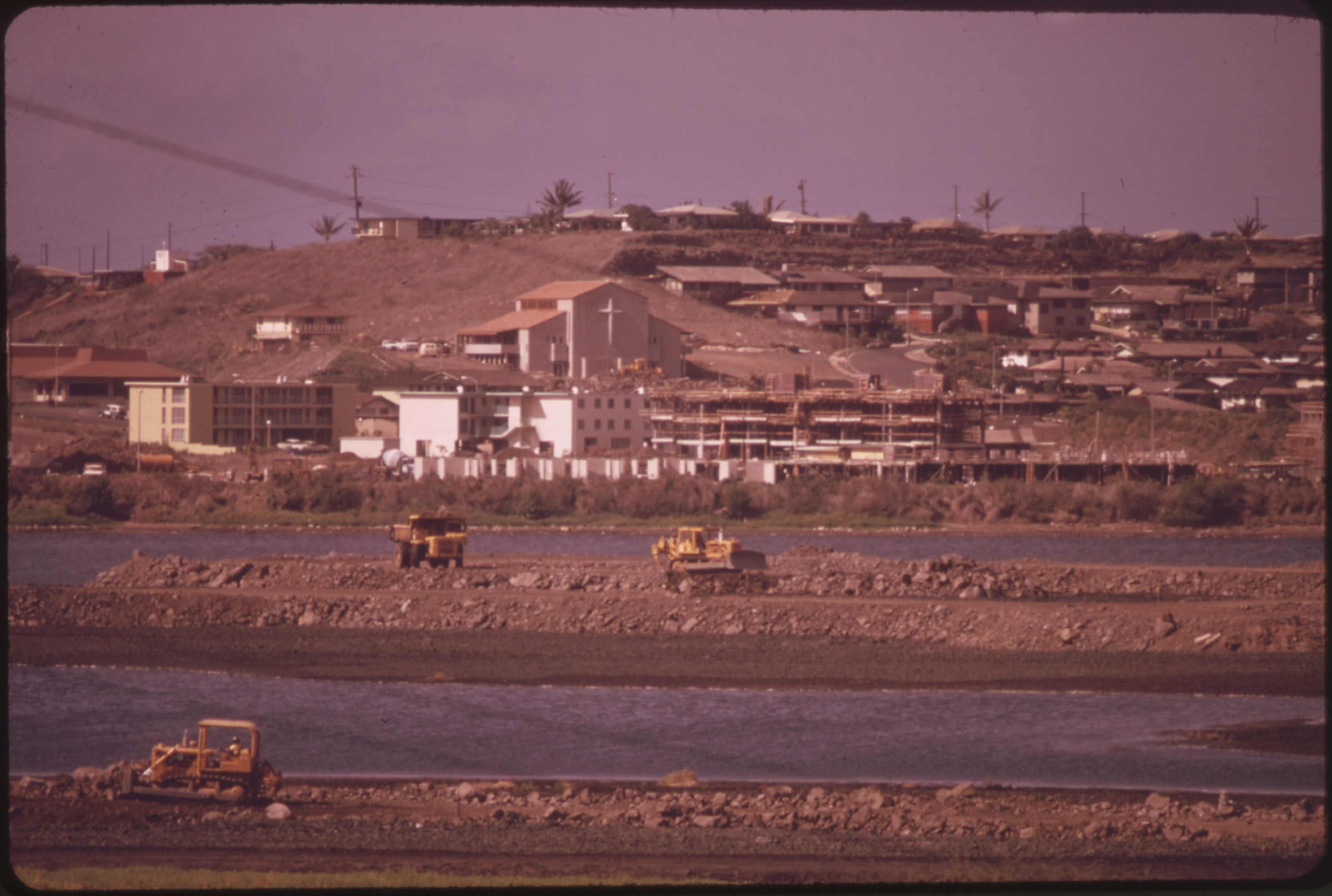 The geographical information of this file was retrospectively estimated. Chances are that this location is very imprecise. Verifying and refining these coordinates is strongly encouraged.